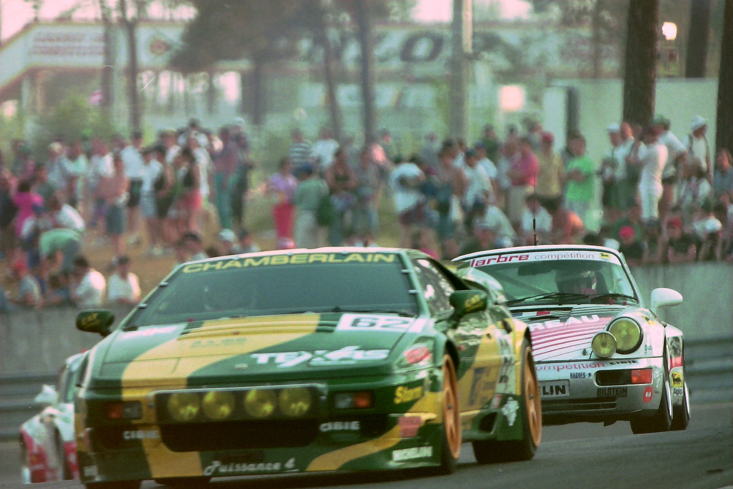 Lotus Esprit Sport 300 - Richard Piper, Peter Hardman & Olindo Iacobelli leads Porsche 911 Carrera RSR - Yver, Leconte & Chereau out of the Esses at the 1994 Le Mans